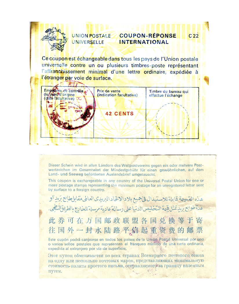 During a big chunk of the 20th century and early 21st, members of the "Universal Postal Union" (many of the post offices) would let you, in one country, buy a pre-paid "International reply coupon" that you could, for example, hand or mail your friend in another country. They, in turn, could exchange this coupon for a local stamp good for mailing back to you. These were commonly used by radio amateurs in the US who'd send them to "contacts" they'd make in other countries, so the latter could mail back "QSL" cards (acknowledgements).